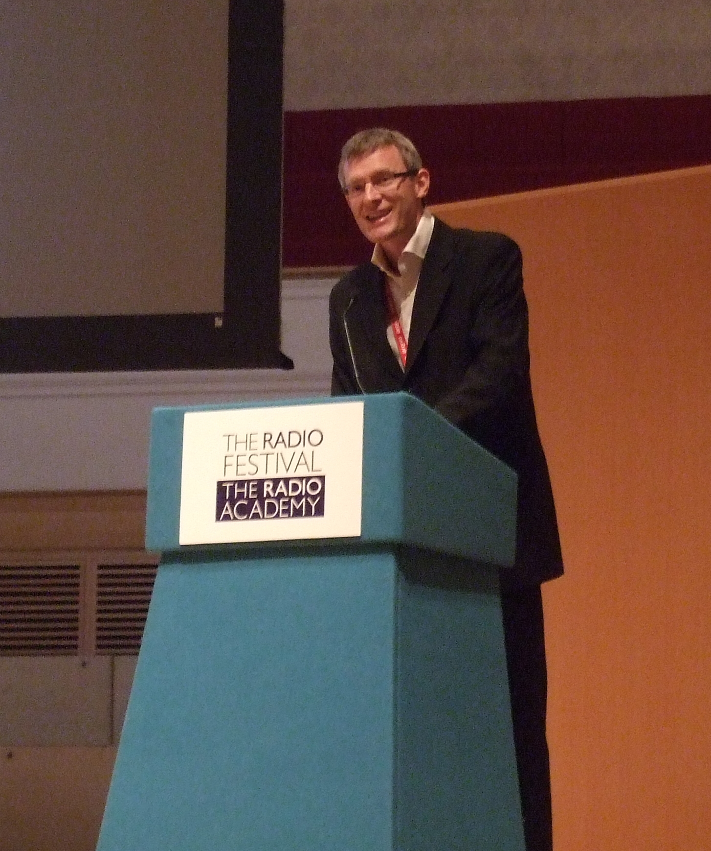 ...presenting The Radio Festival. And he was really very good.